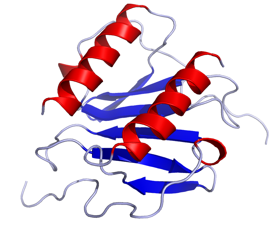 Solution structure of IL-8 as published in the Protein Data Bank (PDB: 1IL8)